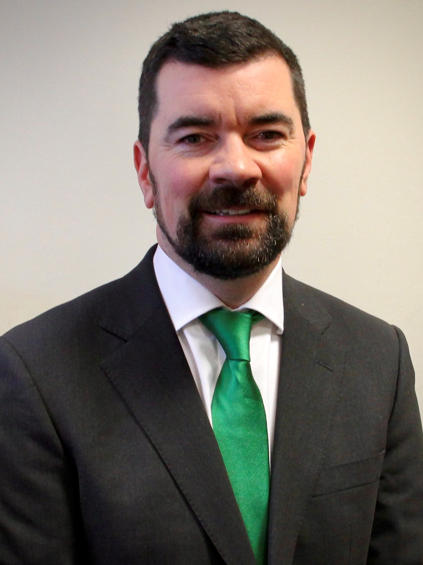 Offical Oireachtas Portrait of Joe O'Brien, member of the Green Party of Ireland, taken 2020.